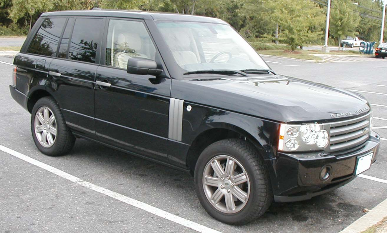 2002-2006 Land Rover Range Rover photographed in USA.